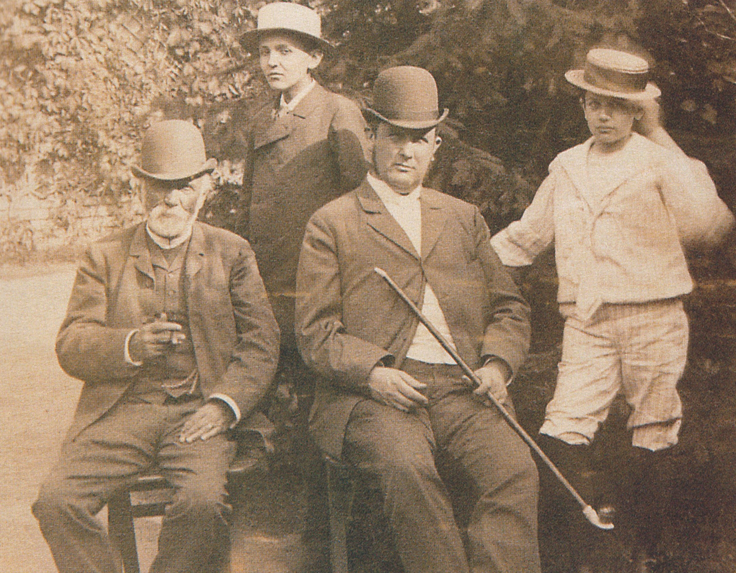 Sándor Wekerle with his father-in-law, son (Sándor Wekerle, Jr, who later became Minister of Finance) and son-in-law in estate of Dános, c. 1893